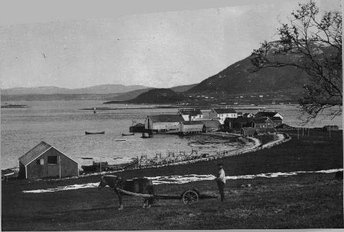 Photographer:, Bodø. Photo taken in about 1895. Linen laundery in front and Sandtorgholmen tradecentre behind. The person on the photo is handyboy Kristian Agersborg from Evenskjer. From the early 13th century there was a tradingpost at Sandtorgholmen. This location became more important in the late 18th century when pilot services was added for foreign and local ships. The trading post continued to be a focal point of Sandtorg until 1945 when the Norwegian Army's communication services took over the facilities after the German occupation (1940-45). The army returned Sandtorgholmen to civilian use in the 1990s. Today the Sandtorgholmen trading post features a hotel with a harbor restaurant and meeting facilities. More at